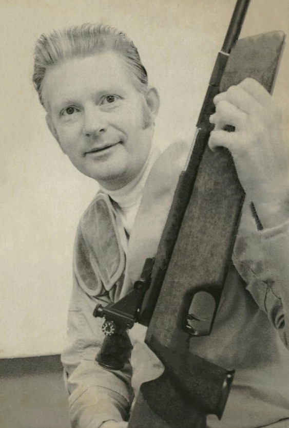 1976 Press Photo Olympic Gold Shooter Gary Anderson - RRQ19059